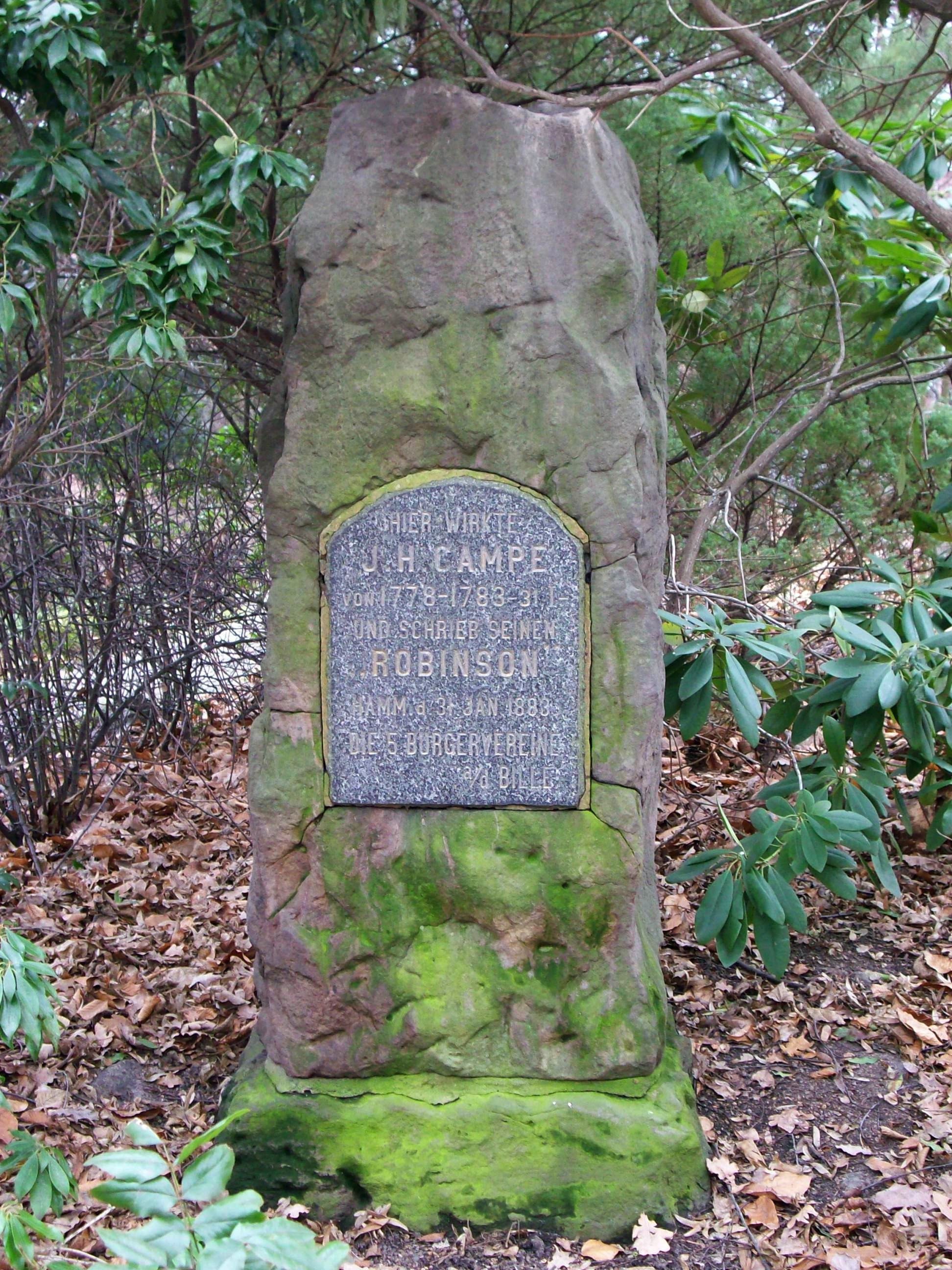 Hamburg, Germany: Commemorative plaque in honour of Joachim Heinrich Campe, a german writer. This is a photograph of an architectural monument. Text: Hier wirkte J. H. Campe von 1778-1783 und schrieb seinen „Robinson“. Hamm, d. 31. Jan. 1883. Die 5 Bürgervereine a/d Bille.